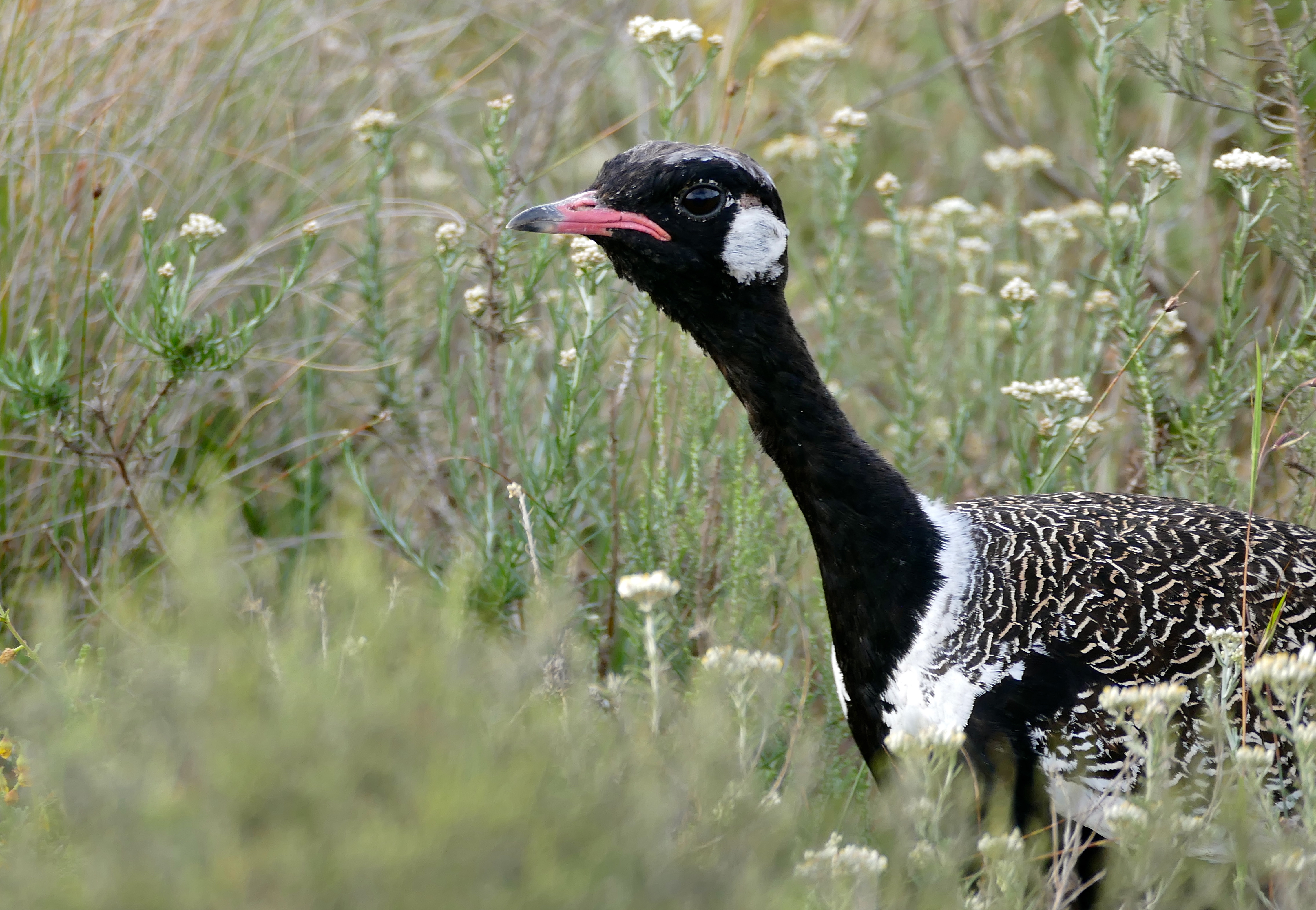 Bontebok NP, Western Cape, SOUTH AFRICA